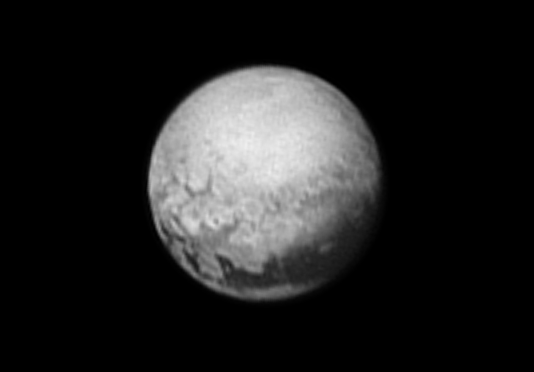 Pluto viewed by the New Horizons spacecraft on 9 July 2015